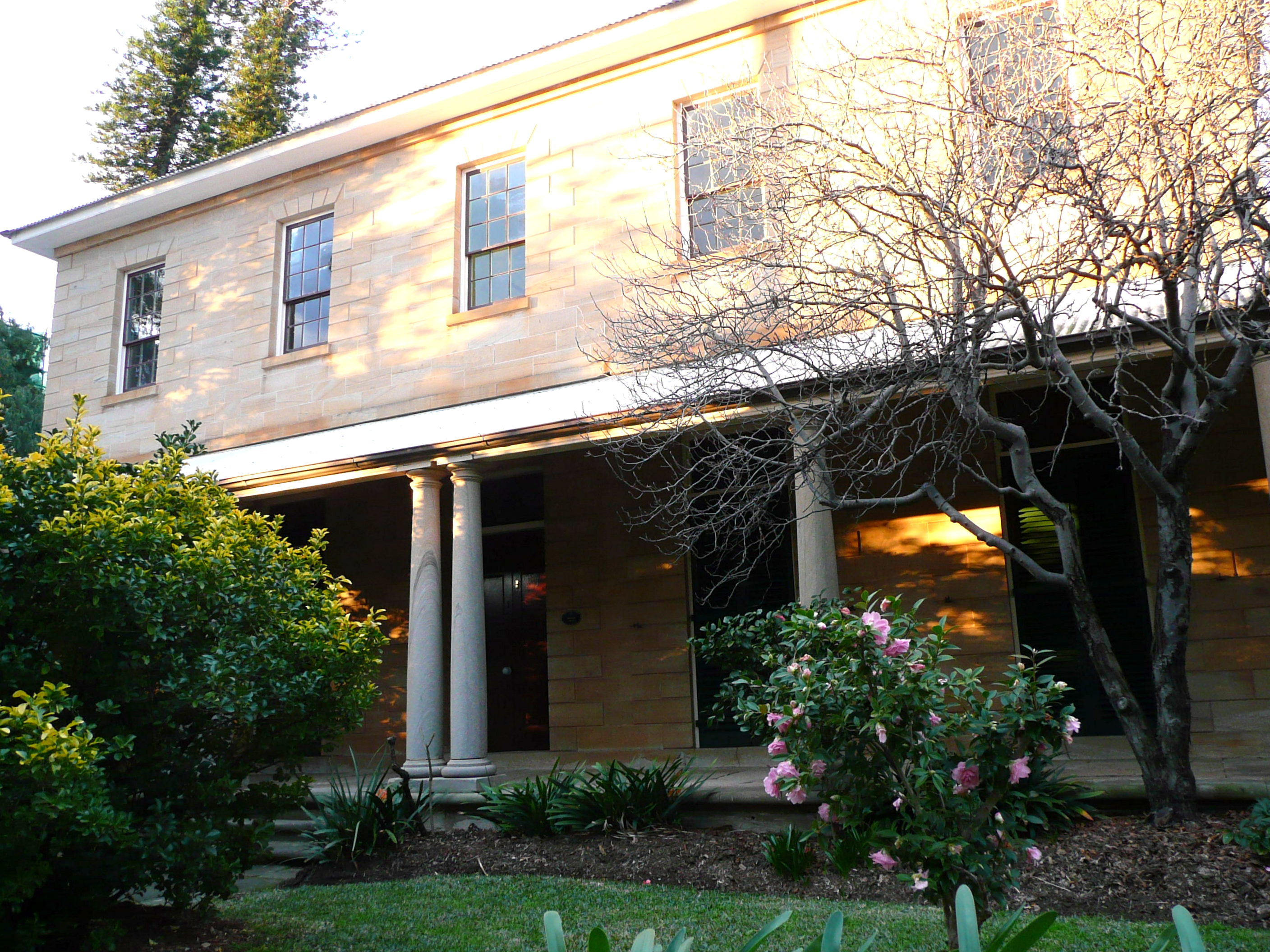 Glenalvin, Campbelltown, Sydney